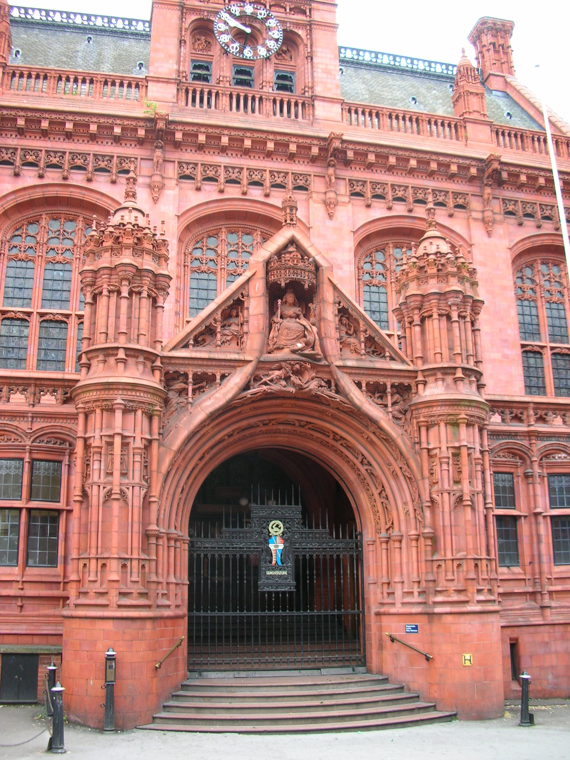 The Victoria Law Courts, Birmingham, England. This is a Magistrates' Court. Distinctive red brick and terracotta building on Corporation Street. *Designed by Aston Webb & Ingress Bell and opened on 12 July 1891. Photographed by me. Oosoom